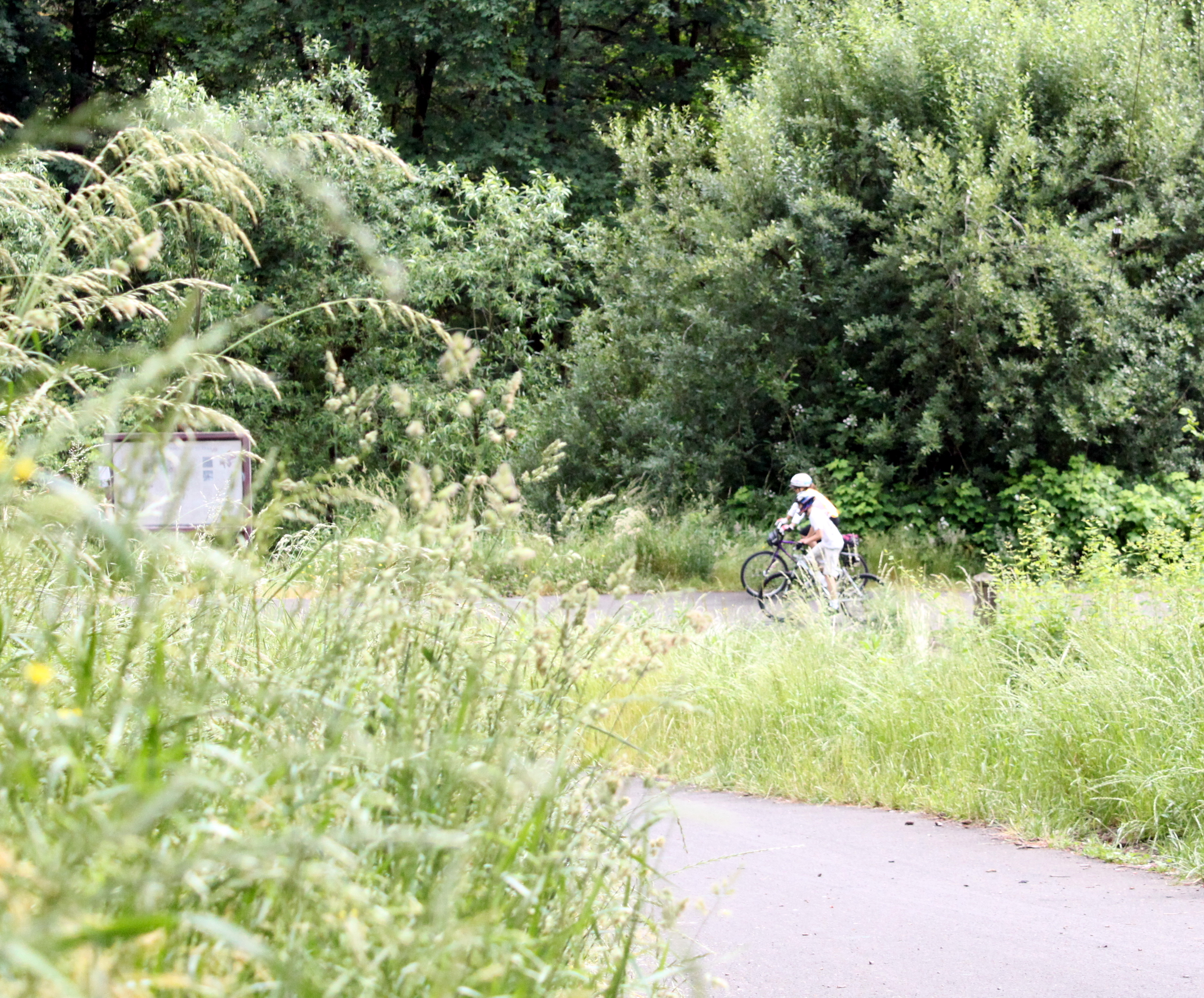 Bicycles on the Tideman Johnson Natural Area in the Ardenwald-Johnson Creek, Portland, Oregon neighborhood of Portland, Oregon.